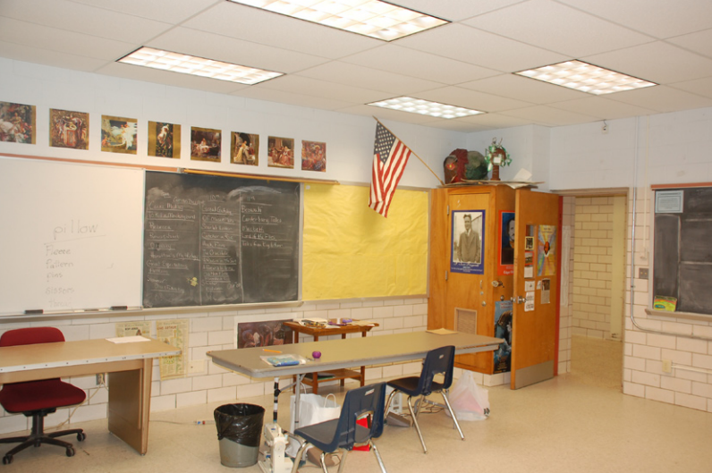 Classroom